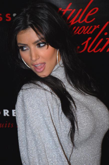 Kim Kardashin at "Style Your Sim" fashion show.